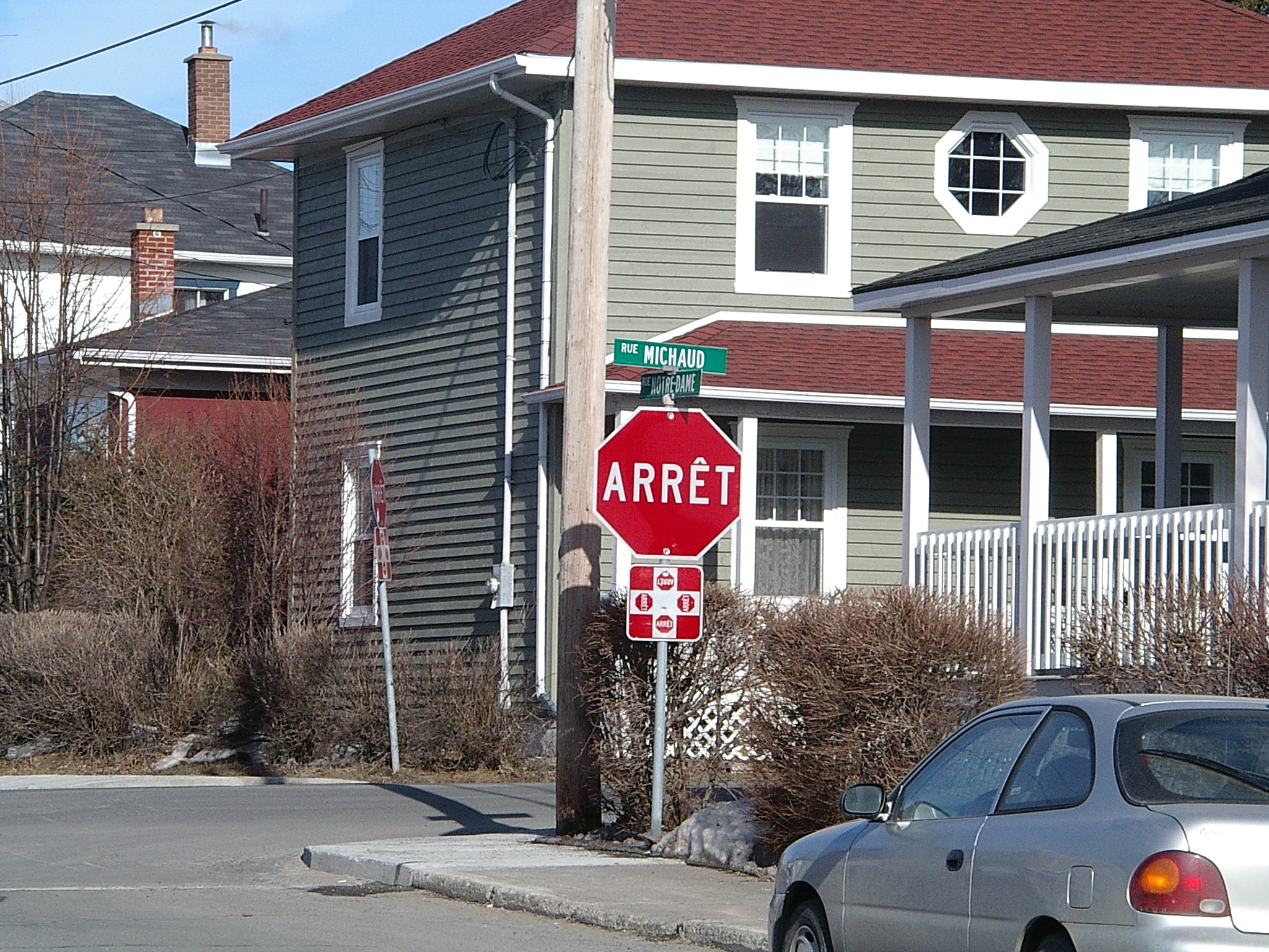 Corner of Michaud Ave. and Notre-Dame St. W., in the Saint-Robert district of Rimouski, Quebec.